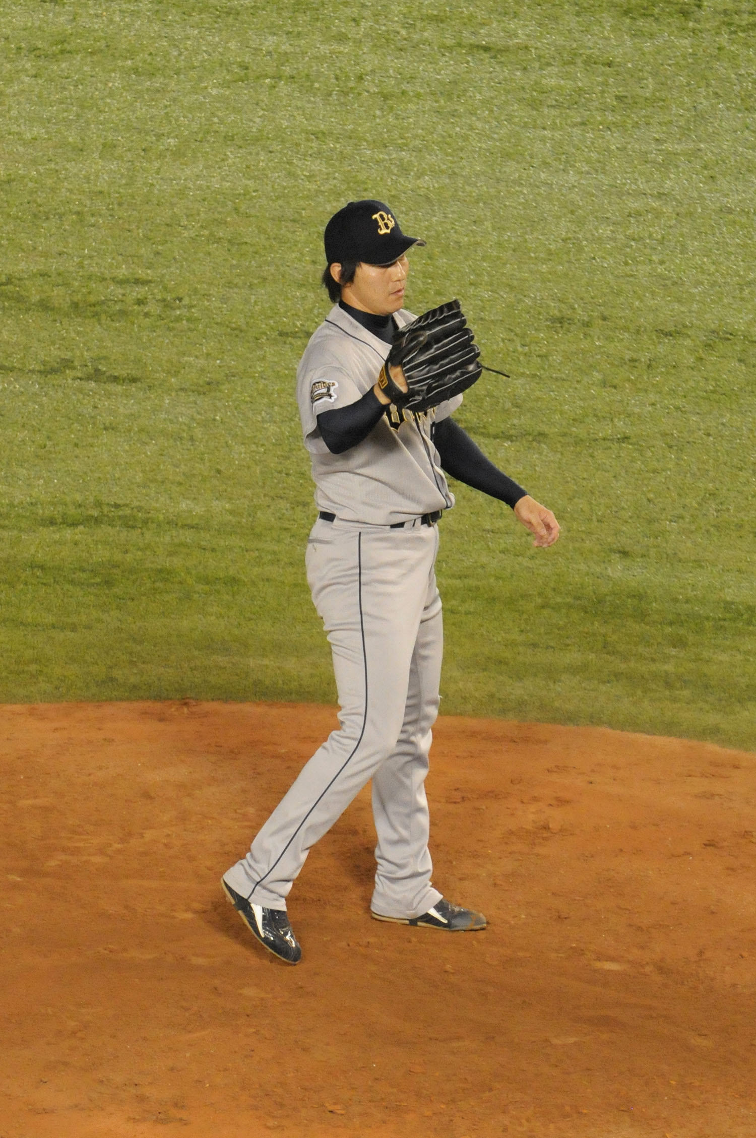 Makoto Yoshino, pitcher of the Orix Buffaloes, at Chiba Marine Stadium.